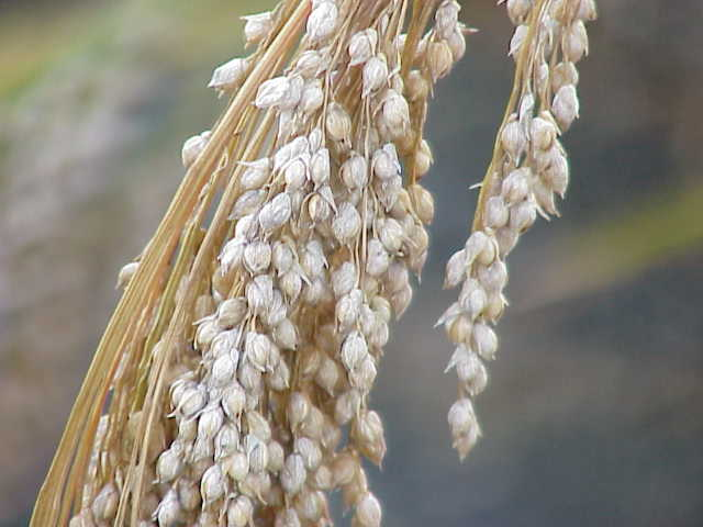 Species: Panicum miliaceum Family: ' Image No. 1